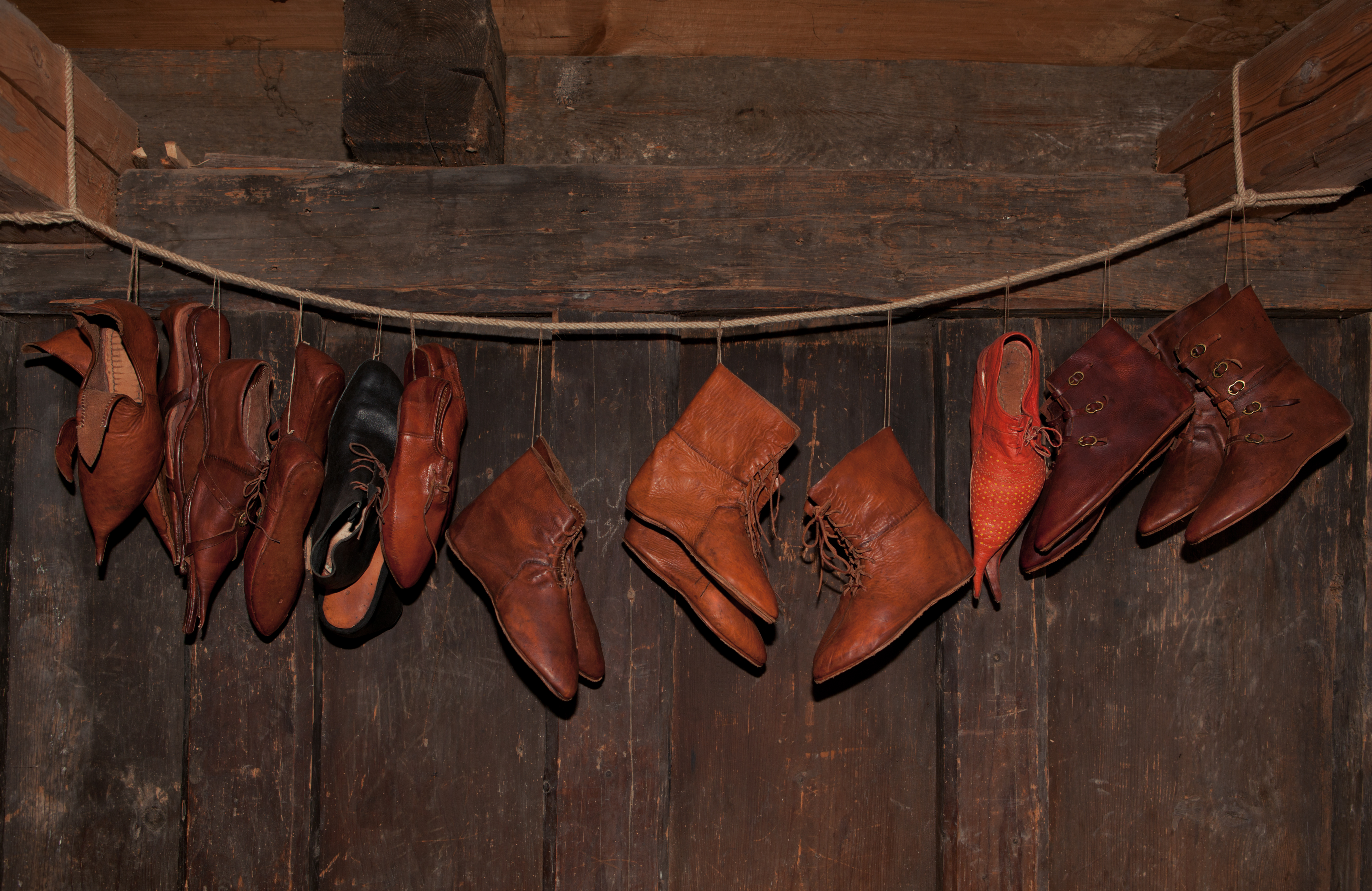 Reproductions of shoes from the late and high middle ages by Meister Knierim.